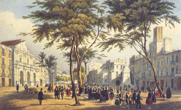 Rambla and Teatre Principal, at Barcelona, ca. 1830.